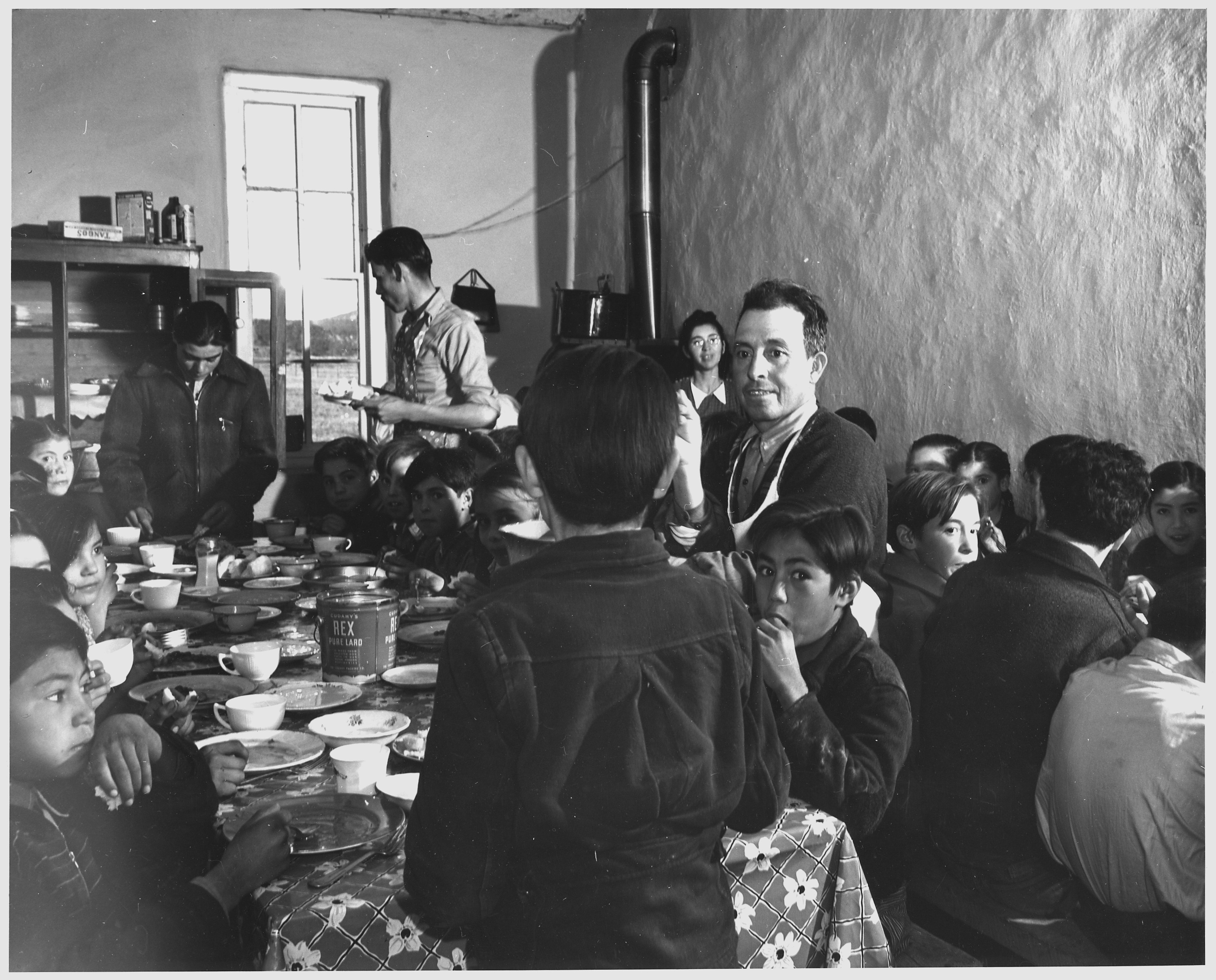 Scope and content: Full caption reads as follows: Taos County, New Mexico. Hot lunch at Chamisal School.